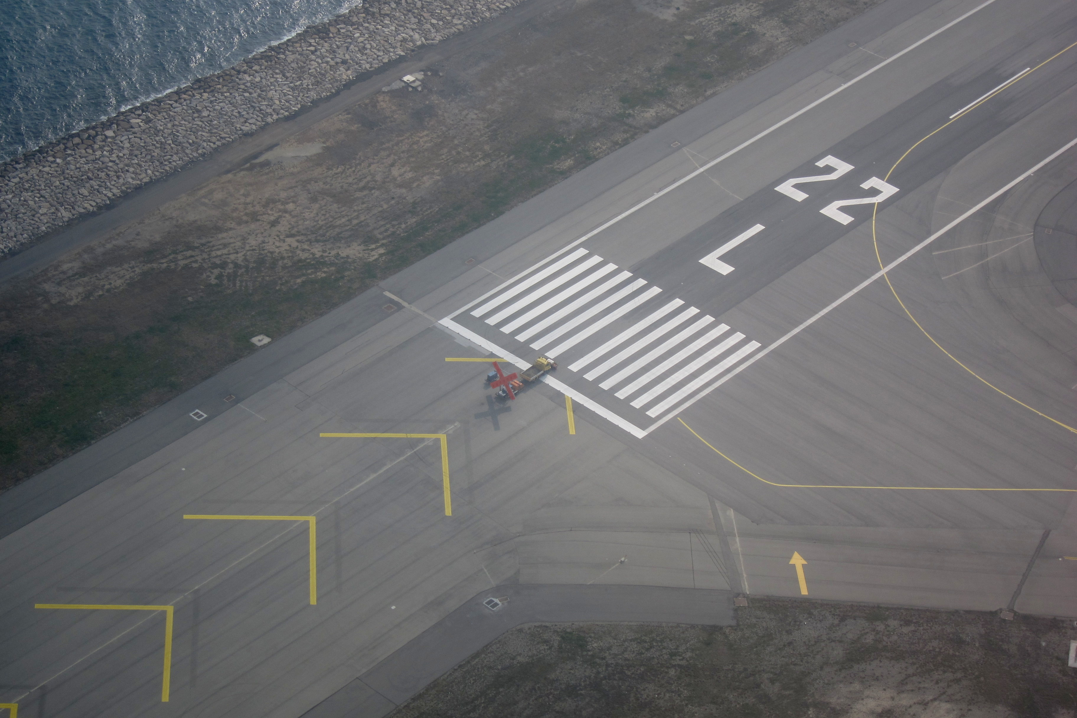 Threshold of the 22L runway at Nice Airport (NCE), closed for maintenance on that day.